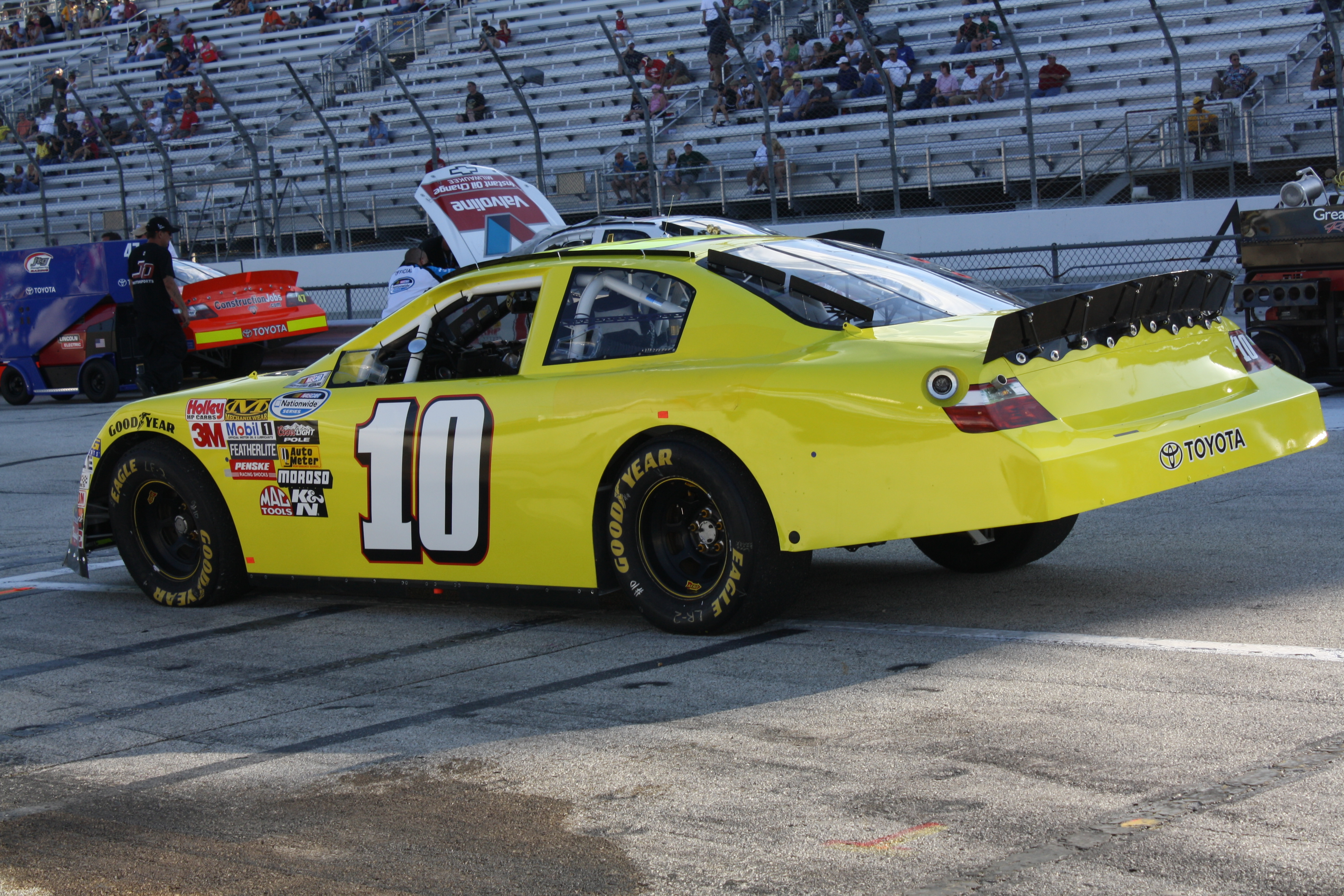 NASCAR driver Kelly Bires Toyota at the 2009 Northern 250 Nationwide Series race at the Milwaukee Mile.